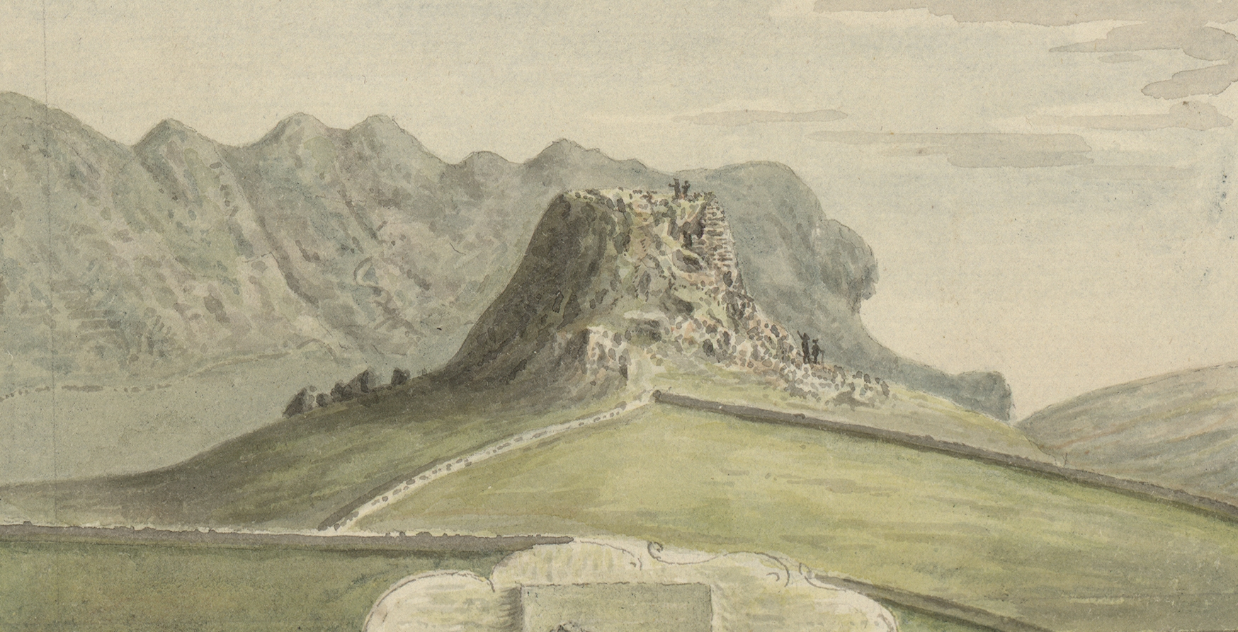 An image from a set of 8 extra-illustrated volumes of A tour in Wales by Thomas Pennant (1726-1798) that chronicle the three journeys he made through Wales between 1773 and 1776. These volumes are unique because they were compiled for Pennant's own library at Downing. This edition was produced in 1781. The volumes include a number of original drawings by Moses Griffiths, Ingleby and other well known artists of the period. Thomas Pennant (1726-1798)